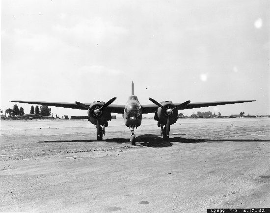 Douglas F-3 "Havoc" aerial reconnaissance aircraft, April 17, 1942.